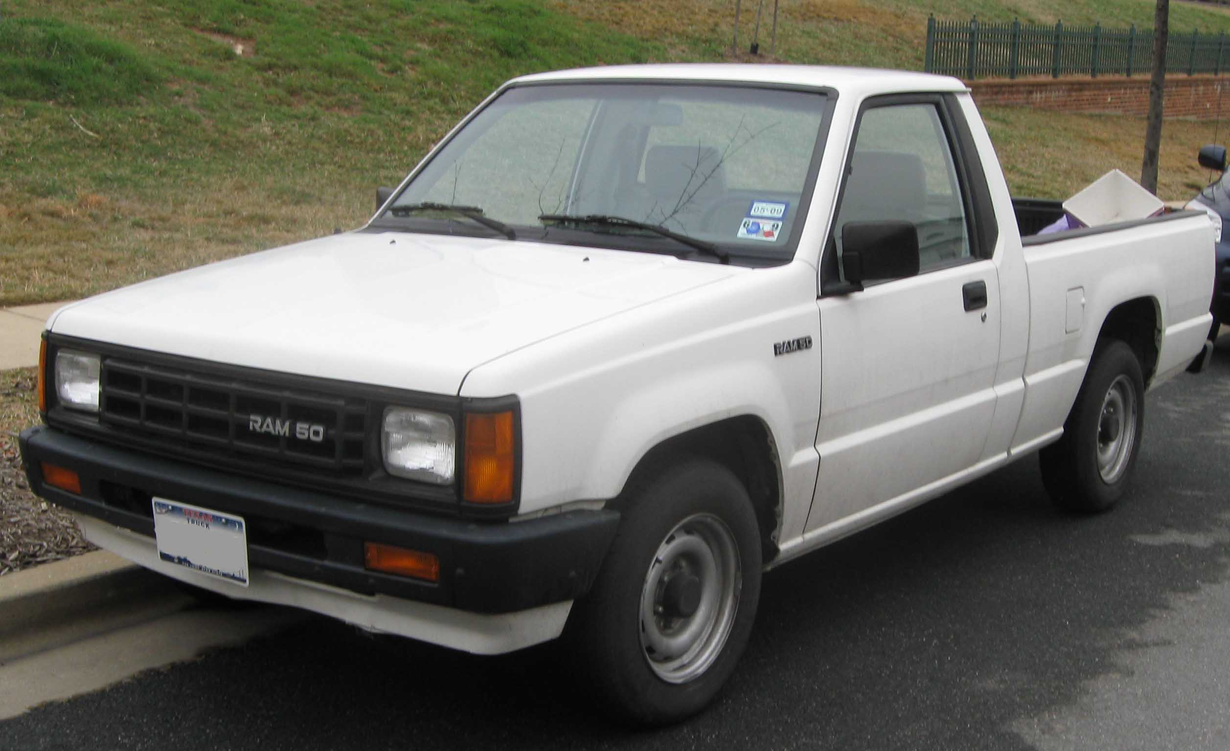 1987-1994 Dodge Ram 50 photographed in Rockville, Maryland, USA.